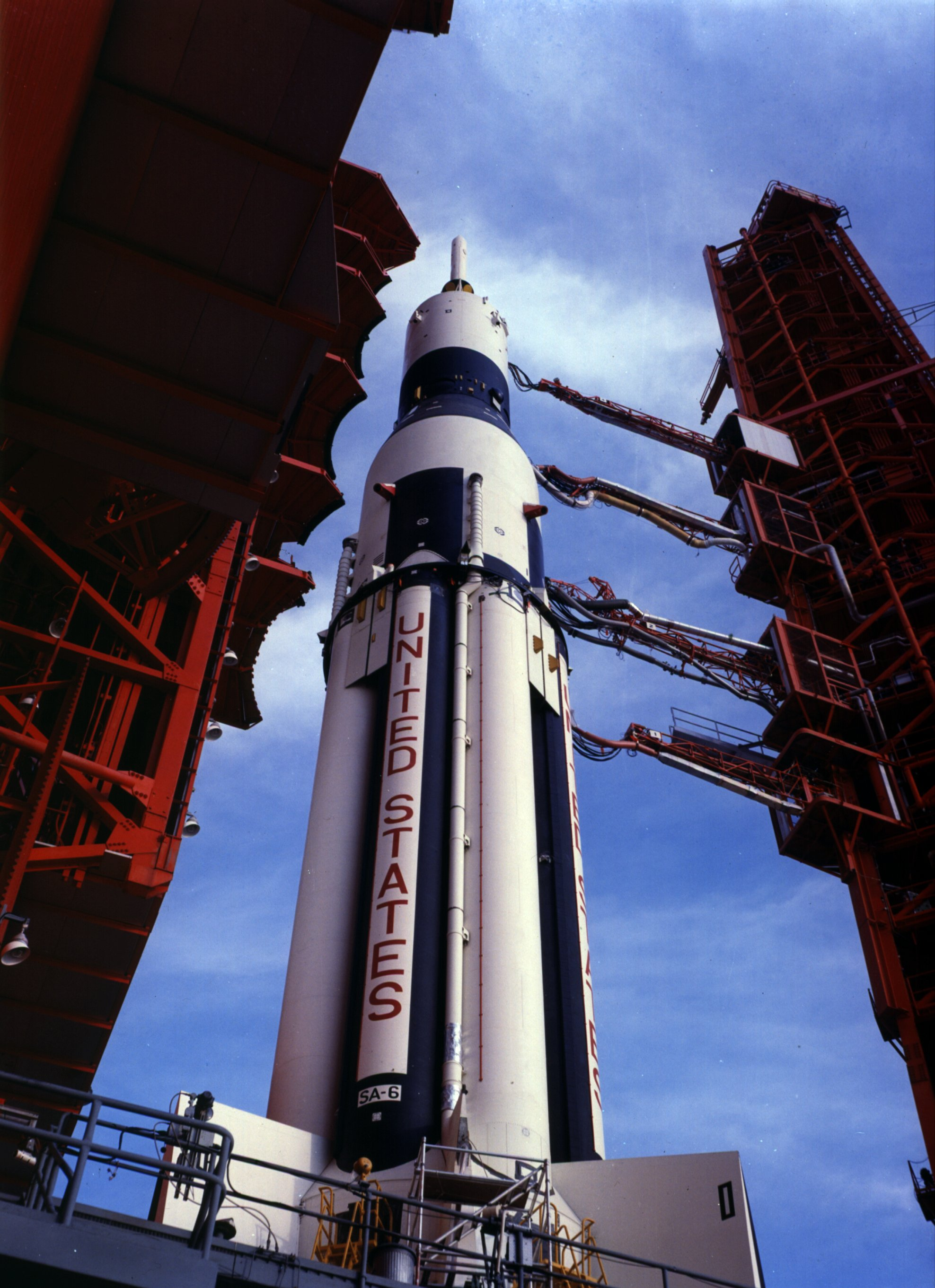 Ground-level view of Saturn SA-6